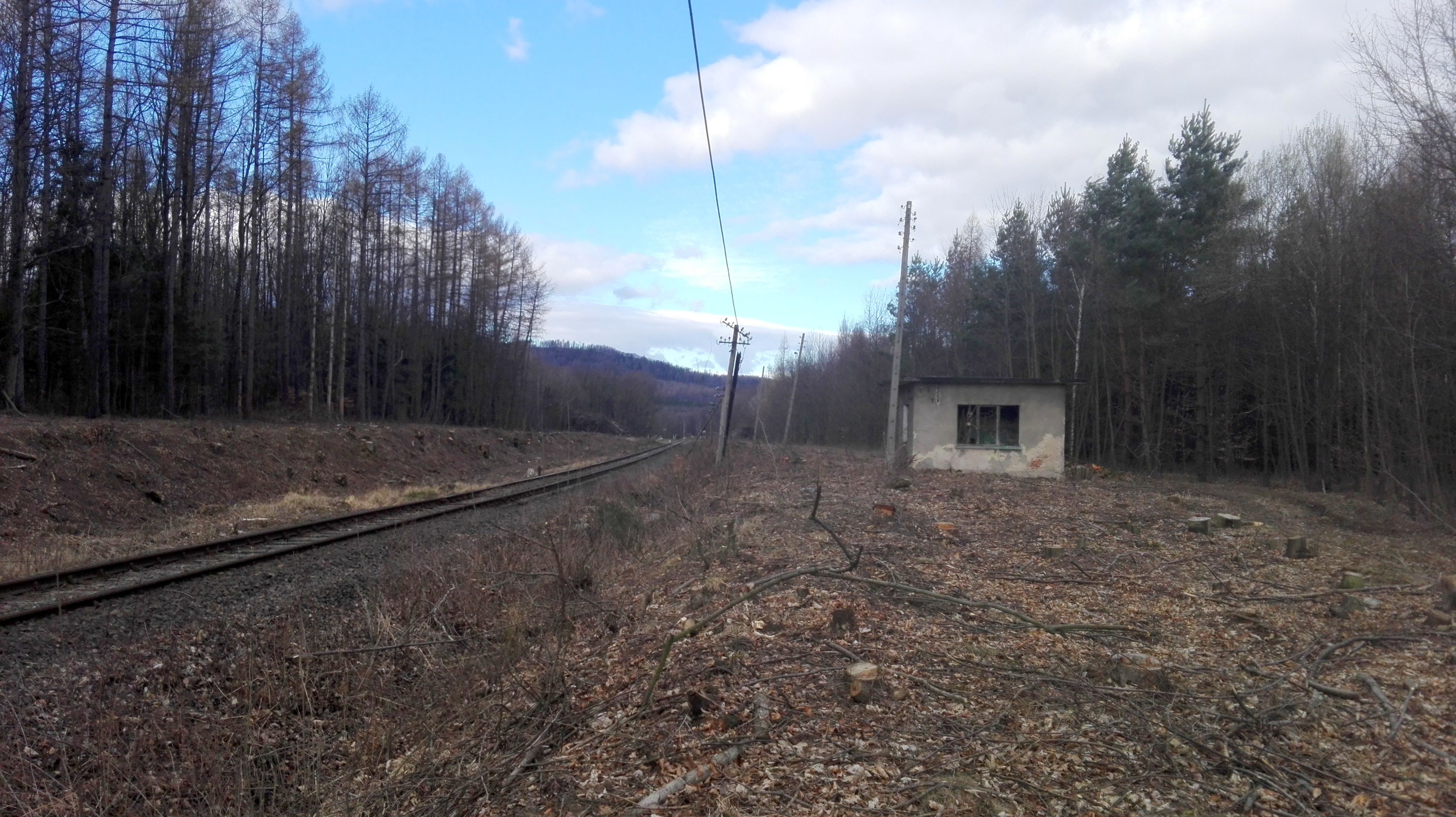 Głuchołazy-Jindřichov ve Slezsku border crossing.